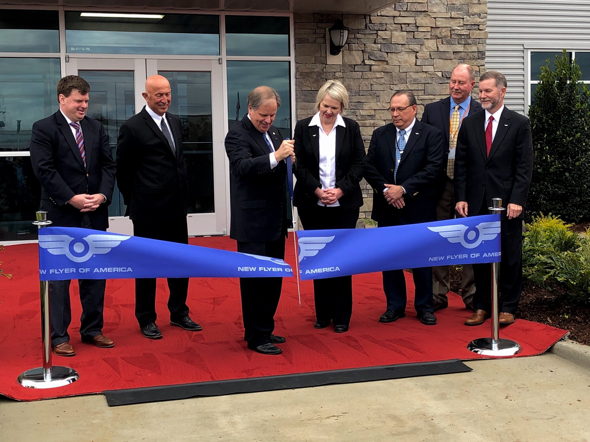 It’s official! This morning we celebrated the opening of @newflyer’s newly expanded, advanced manufacturing facility in Anniston – this $25 million dollar investment is another great step forward for Alabama!